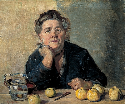 Rose Mead; Barbara Stone c.1940 oil on canvas 64cm x 76cm